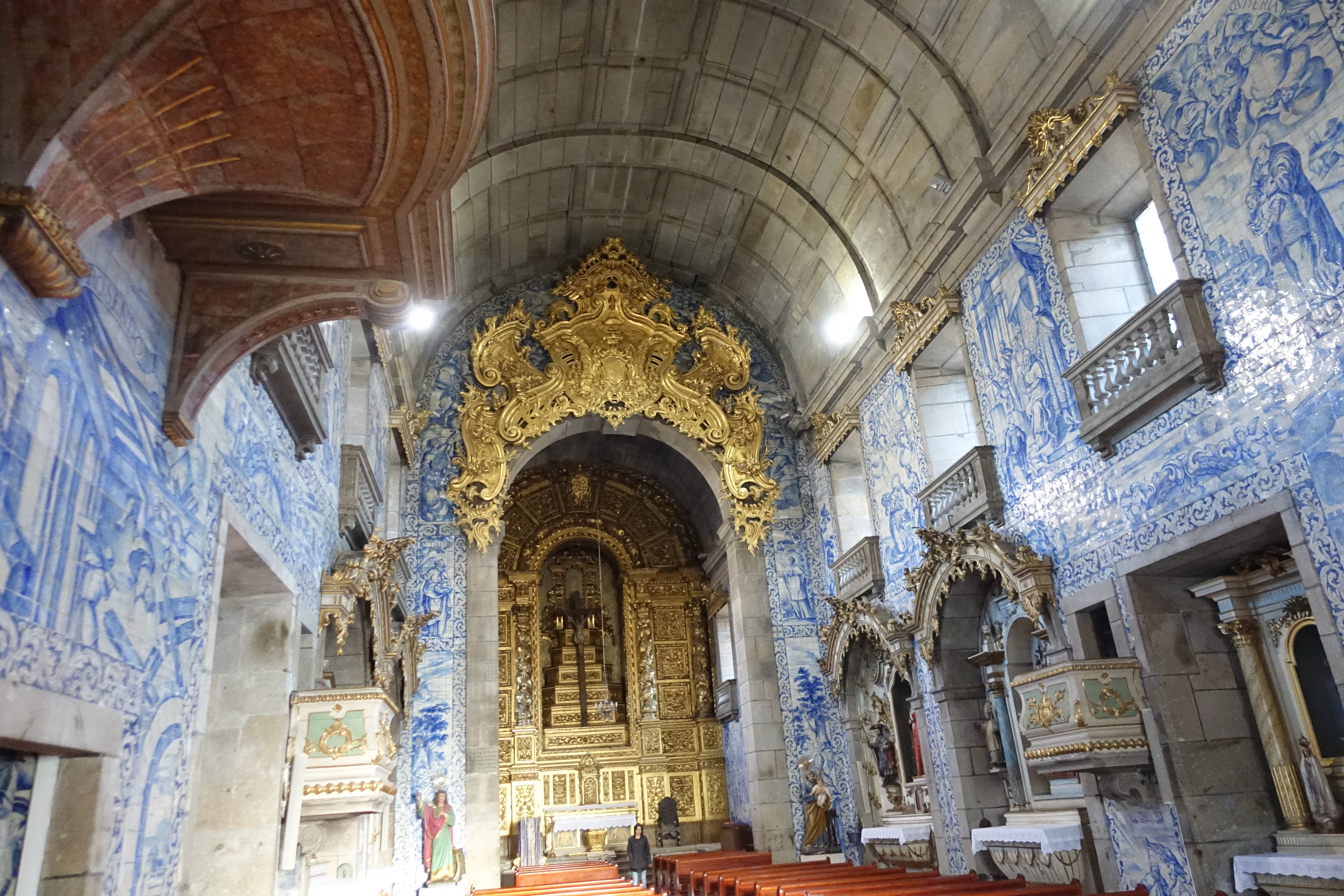 Interior of Church of São Vítor (Braga), Portugal